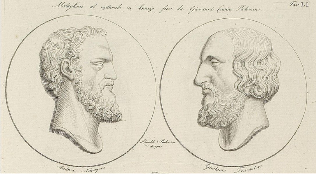 engraving after a drawing by Rinaldo Padovano of the two large medallions (48 cm diameter) by Giovanni da Cavino representing the two friends Andrea Navagero and Girolamo Fracastoro. The medallions in bronze were commissioned by Giovanni Battista Ramusio to honor their friendship. An engraving of Fracastoro by Alexandro dalla Via after the same medallion is less convincing. The medallion is reproduced e.g. as fig. 15 of J. Dunkerton et al., Burlington Mag., 2013, vol CLV: 4-15; also as fig. 187. of Harold Maxwell, Sydney Selwyn: A history of medicine; Ilg (1887) 61. and Dunkerton et al. (2013) discuss the medallion.